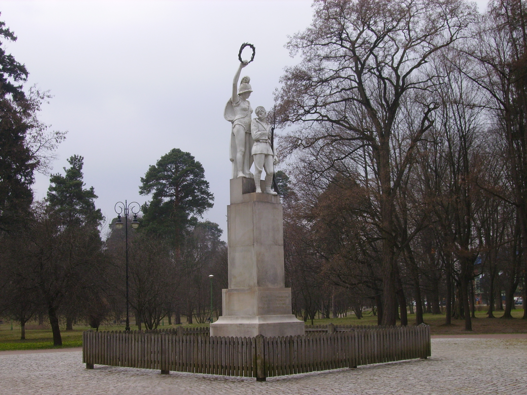 Monument to soldiers of 42 Infantry Regiment in Bialystok